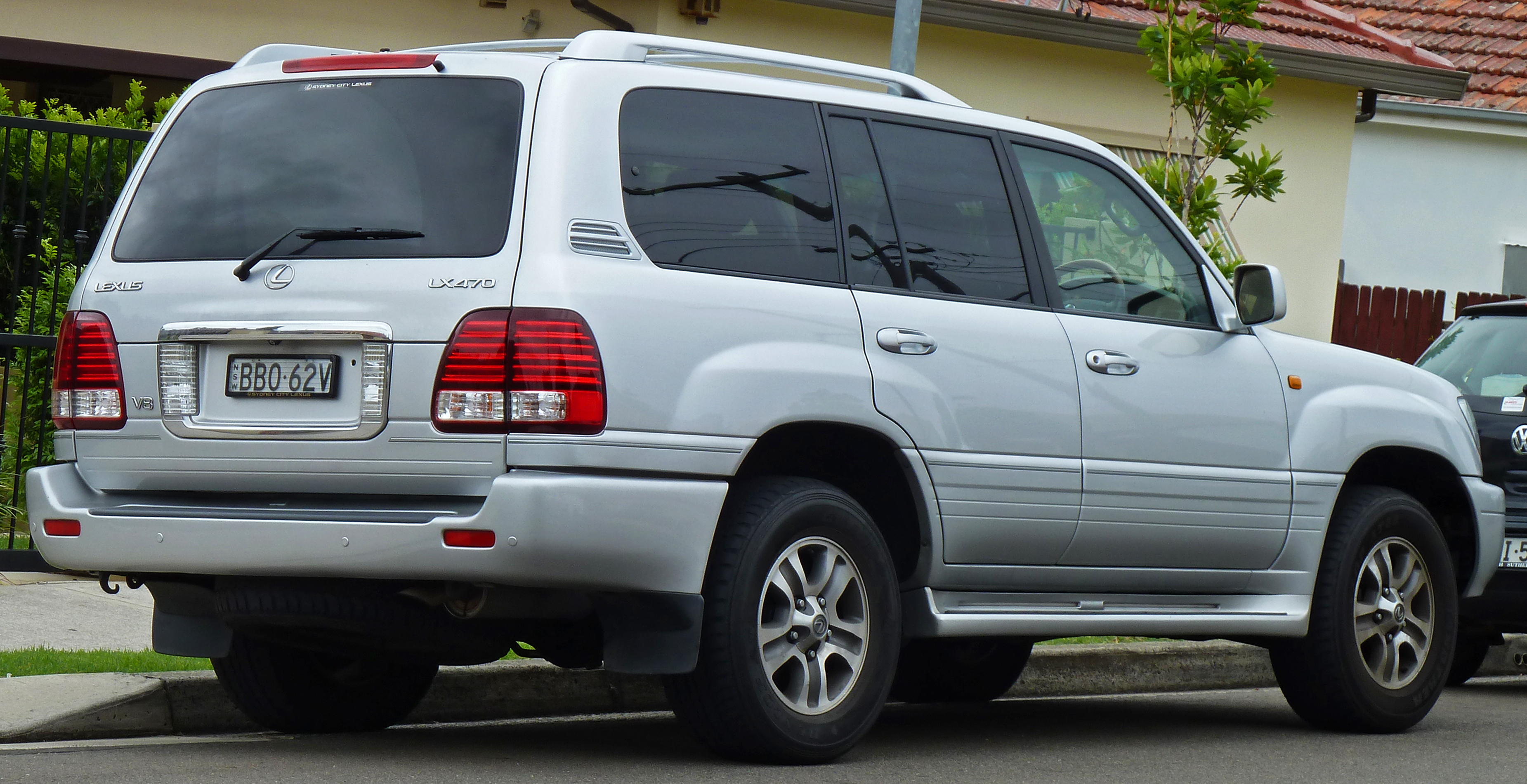 2007 Lexus LX 470 (UZJ100R MY06) wagon. Photographed in Beverley Park, New South Wales, Australia.